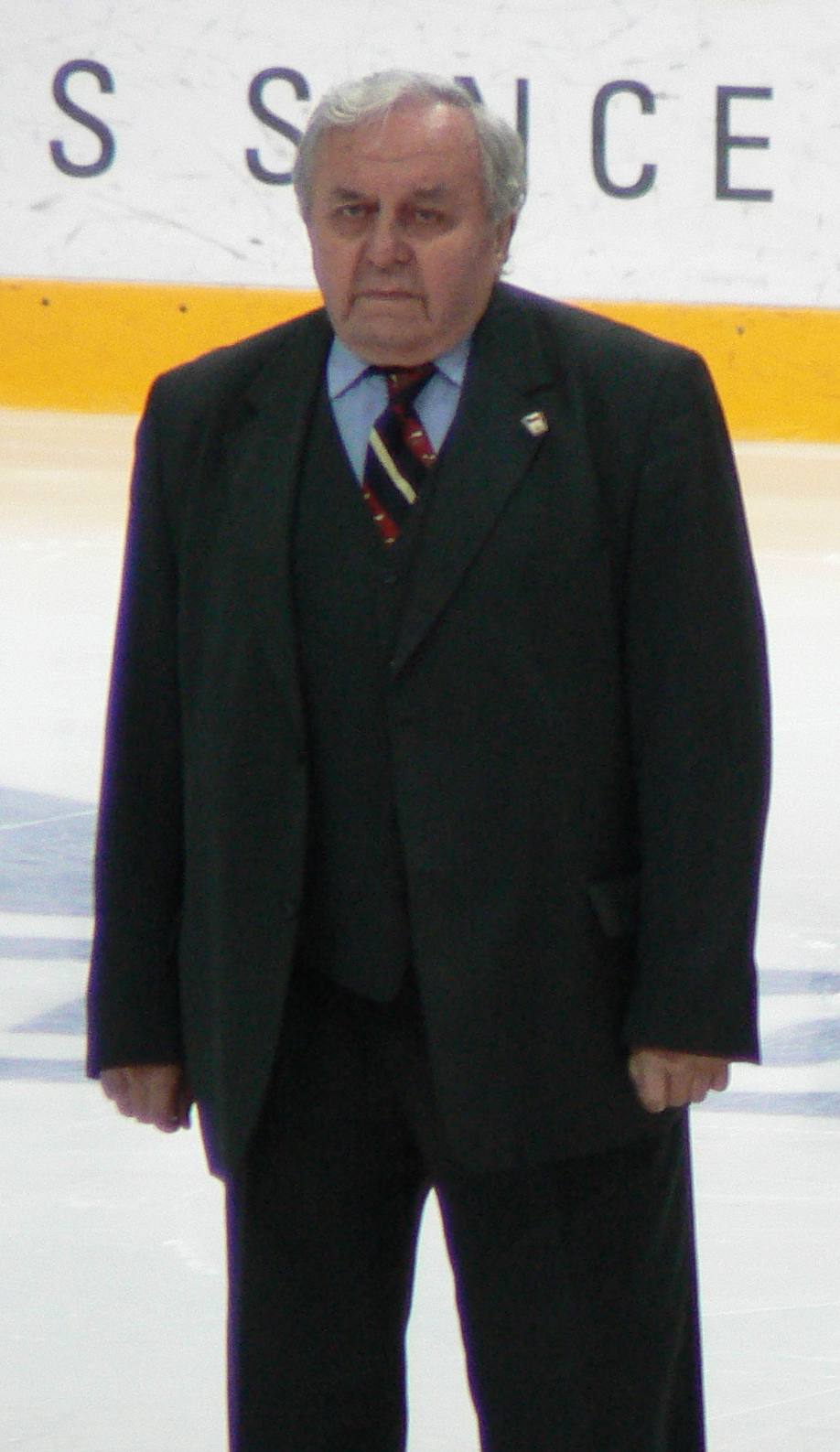 Former Czech ice hockey player and coach Augustin Bubník in Tampere, Finland, February 2007.